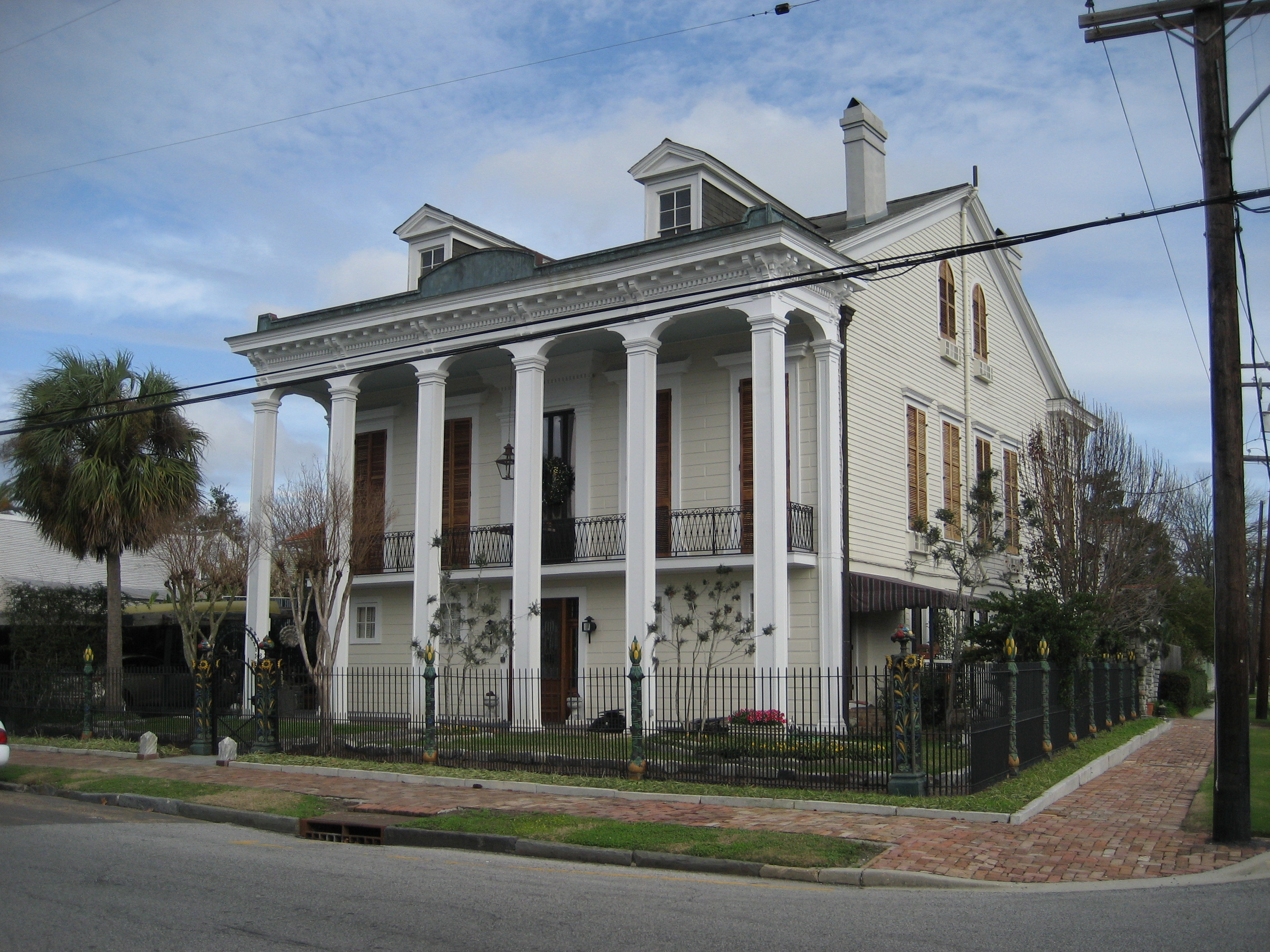 Dufour Plassan House, Esplanade Ridge area of New Orleans; old mansion with cornstalk fence